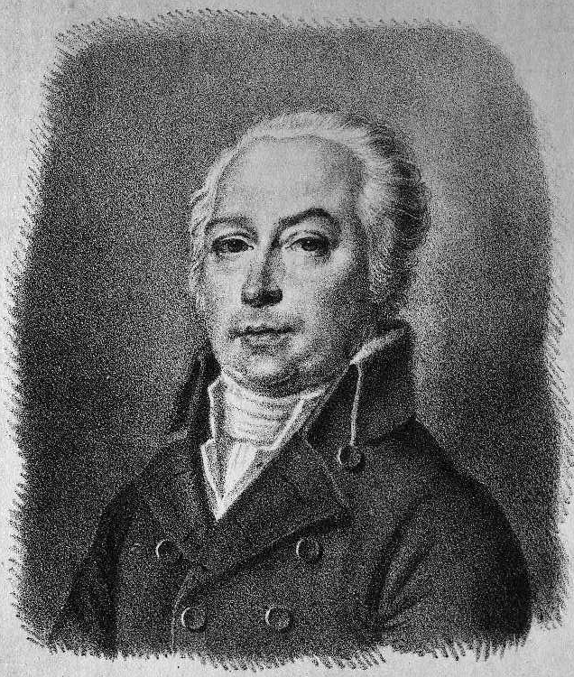 Fedor Klucharev